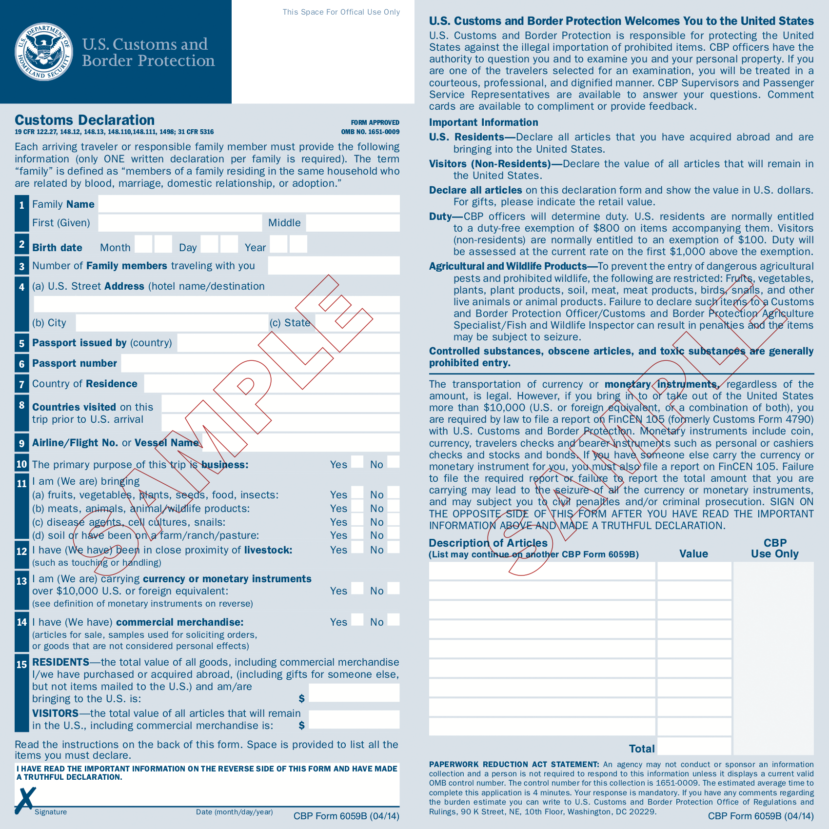 United States Customs and Border Protection Form 6059B, Arrival Card.